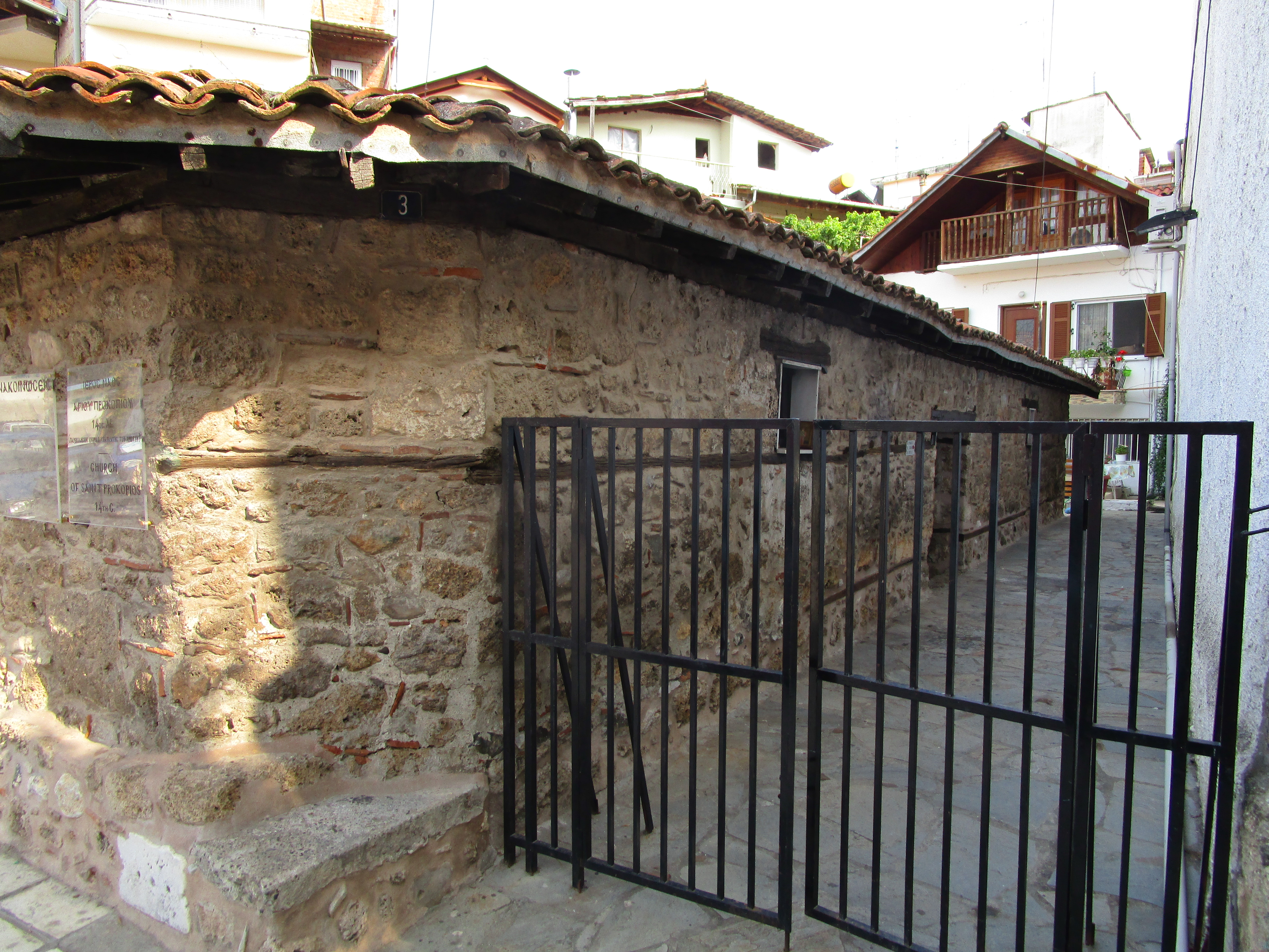 St. Prokopius, Ber